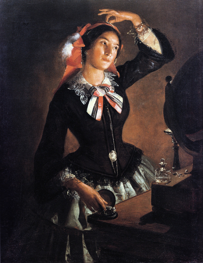 Portrait of Amanzia Guérillot at the Mirror (1856)